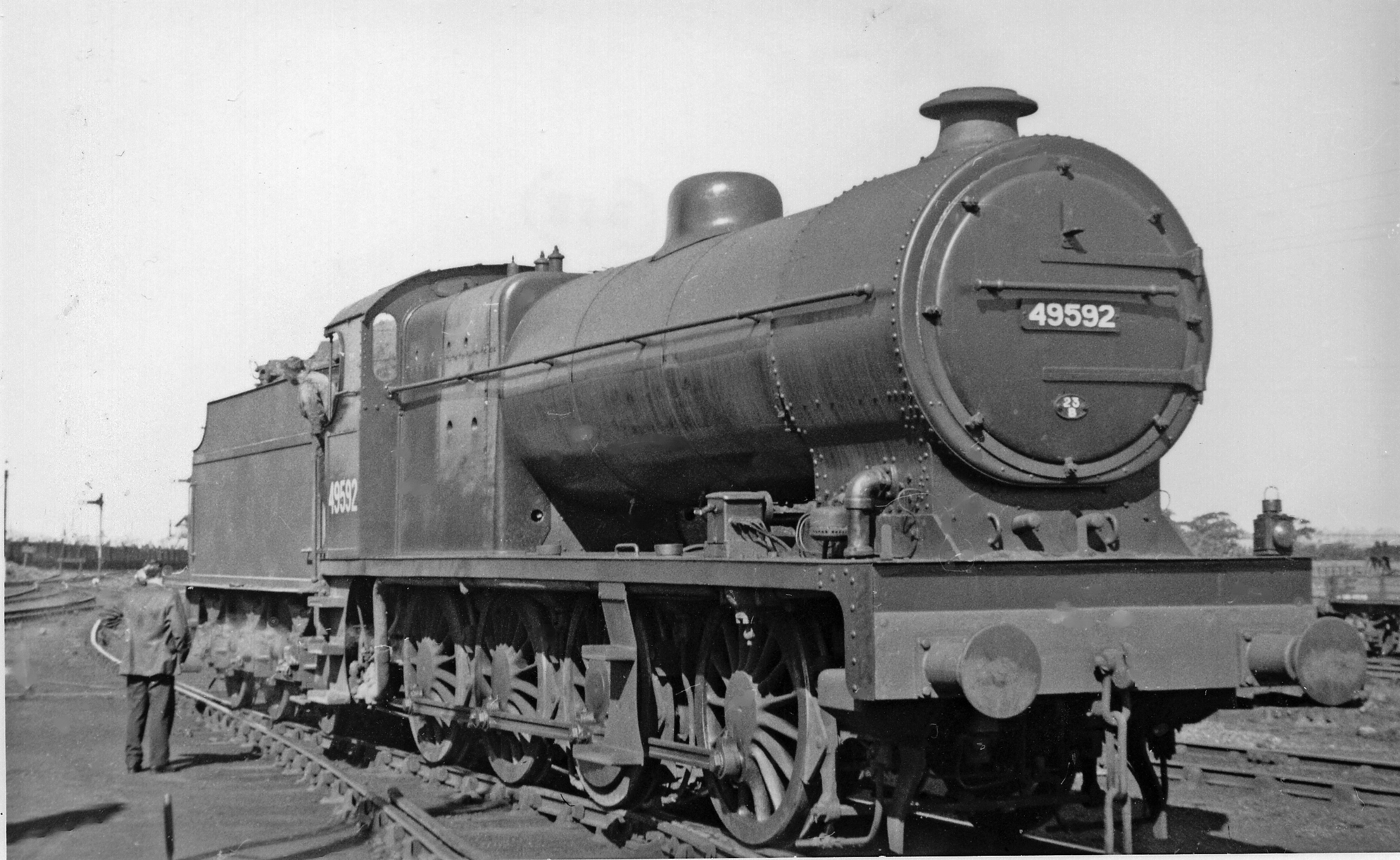 LMS Fowler 0-8-0 at Aintree Locomotive Depot. No. 49592 (built 1929, withdrawn 5/59) was one of numerous members of the class working from Aintree Depot until the early 1950s. In 1950 (coded 27B) the Depot had an allocation of 55:- 5 2-8-0, 26 0-8-0, 16 0-6-0, 6 0-6-0T and 2 2-4-2T.